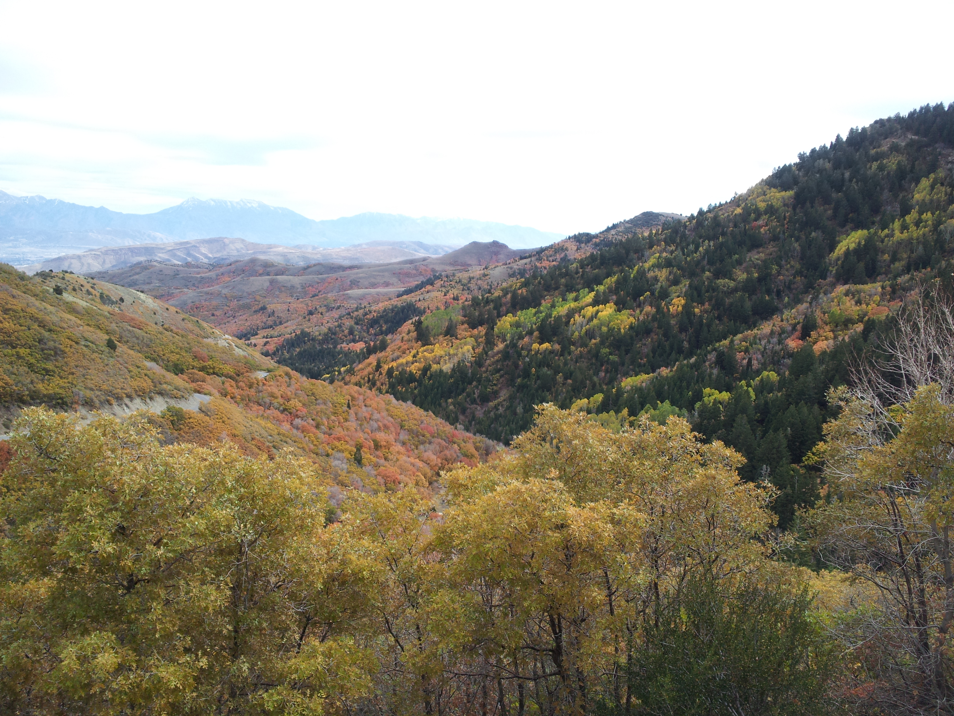 Picture of Butterfield Canyon